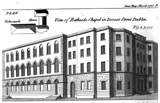 Engraving of the Bethesda Chapel, Dorset Street, Dublin, from the Gentleman's Magazine 1786.